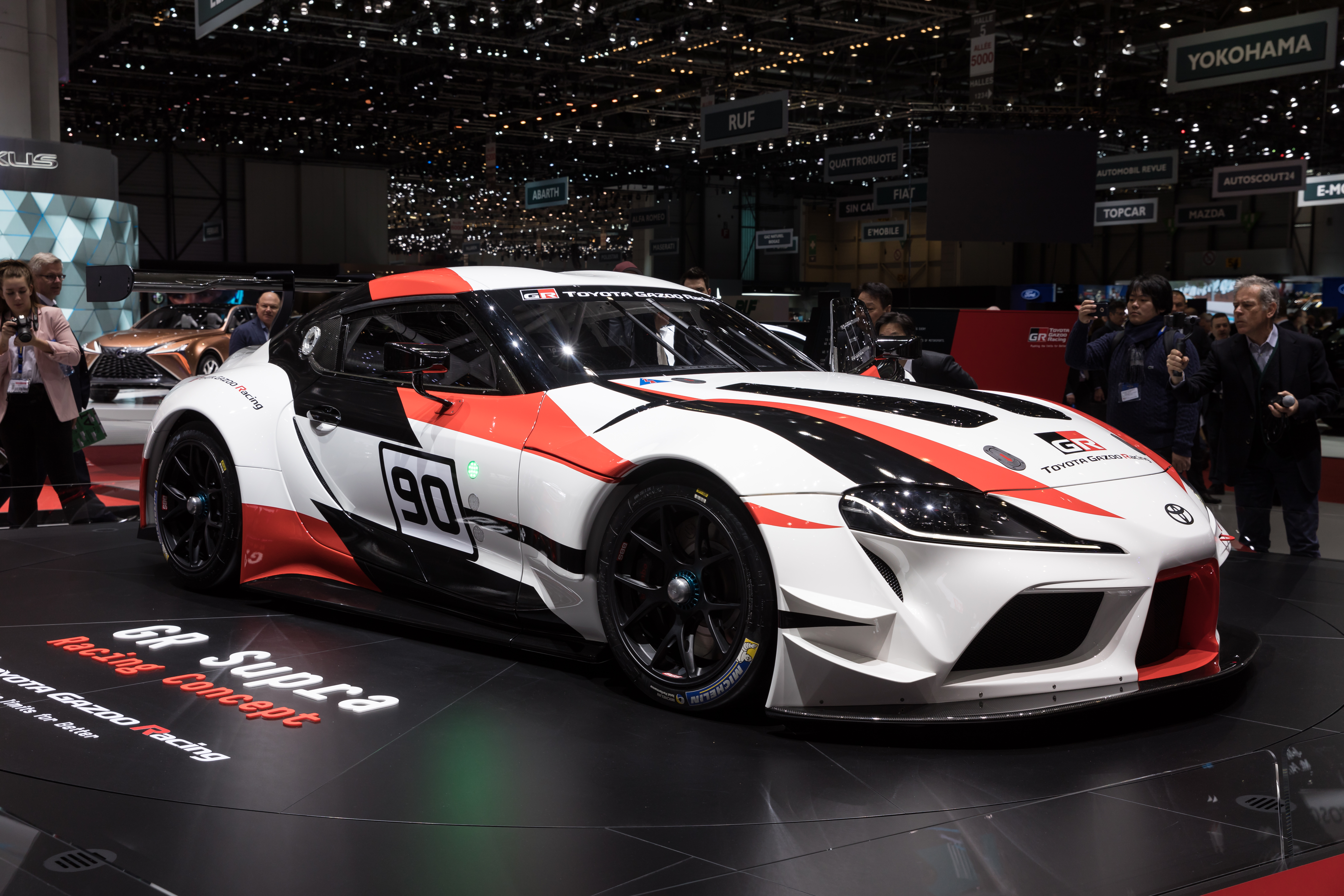 Geneva International Motor Show 2018